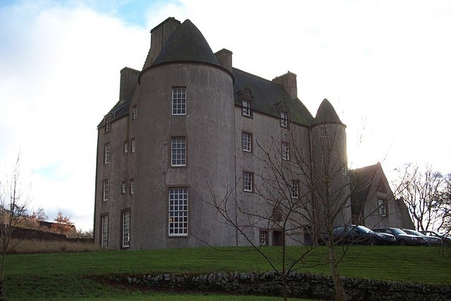 Broughton Place There was a good art exhibition the day we visited.